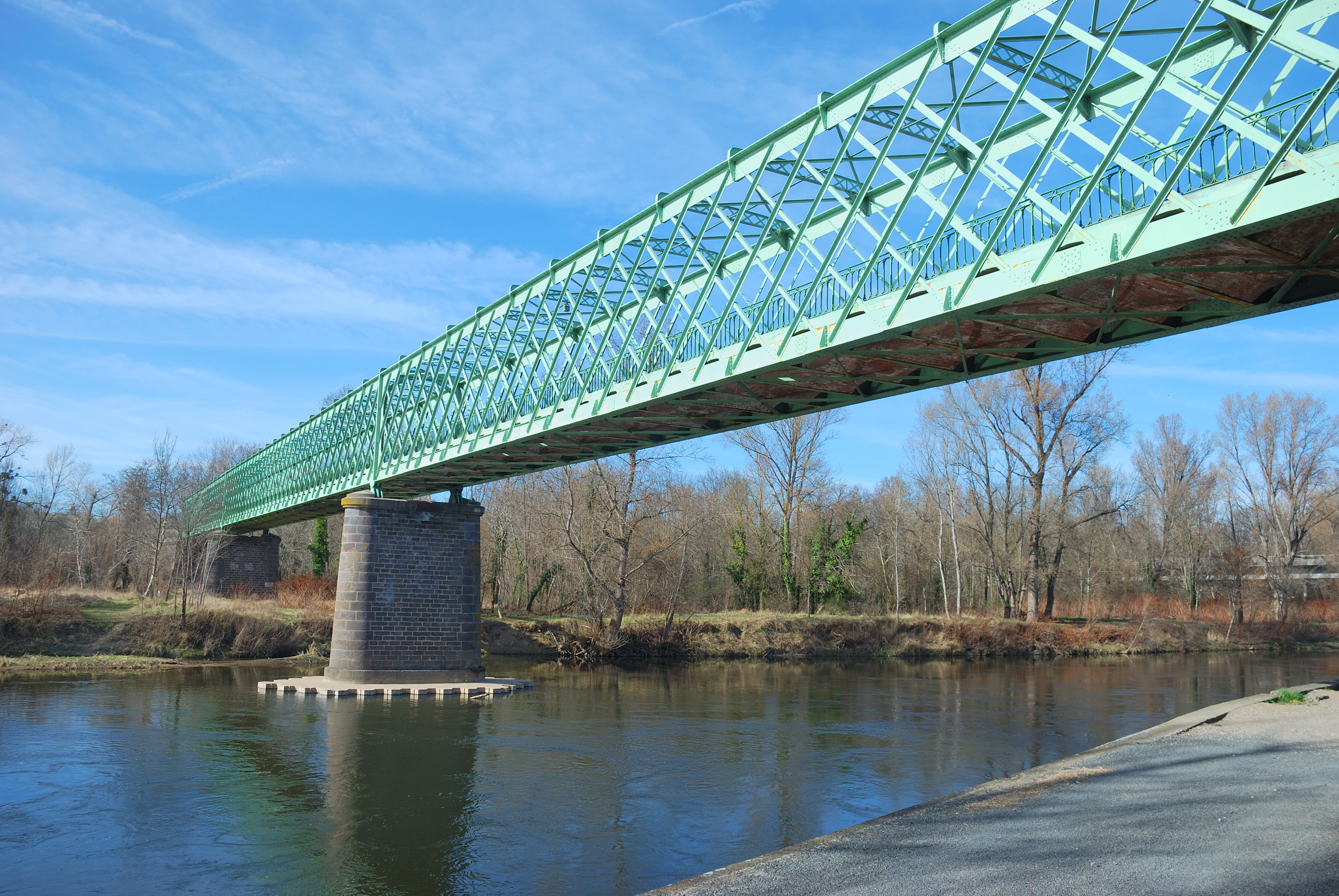 Dallet: metal bridge built in 1899 Puy-de-Dôme.- (Auvergne).- France.